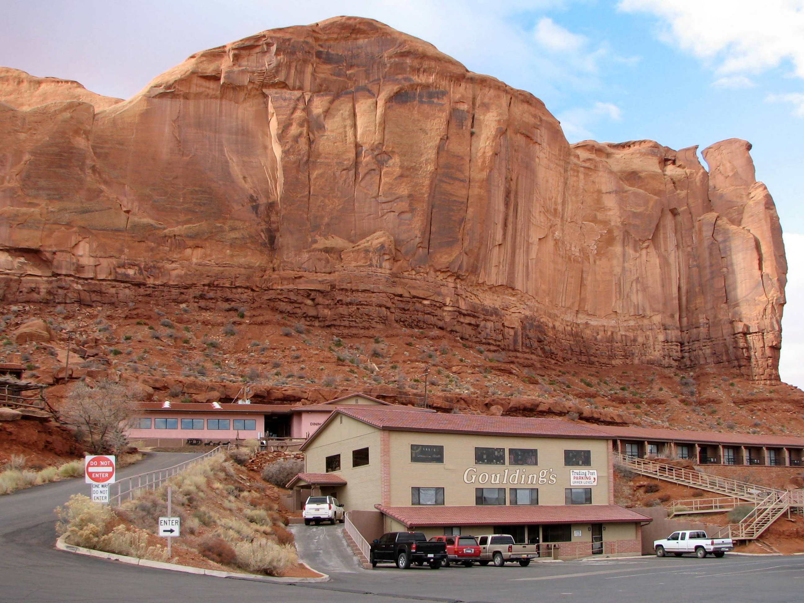 Goulding's Lodge motel near Monument Valley, Utah, USA